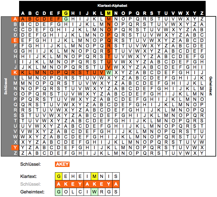 A Viginère square. Example of how to use it.